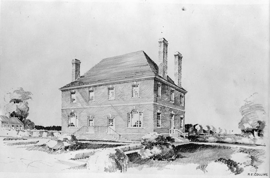 Drawing of the exterior of Nomini Hall, the plantation belonging to the Carter family in Westmoreland County, Virginia. Historic American Buildings Survey, The Library of Congress, Washington, D. C.